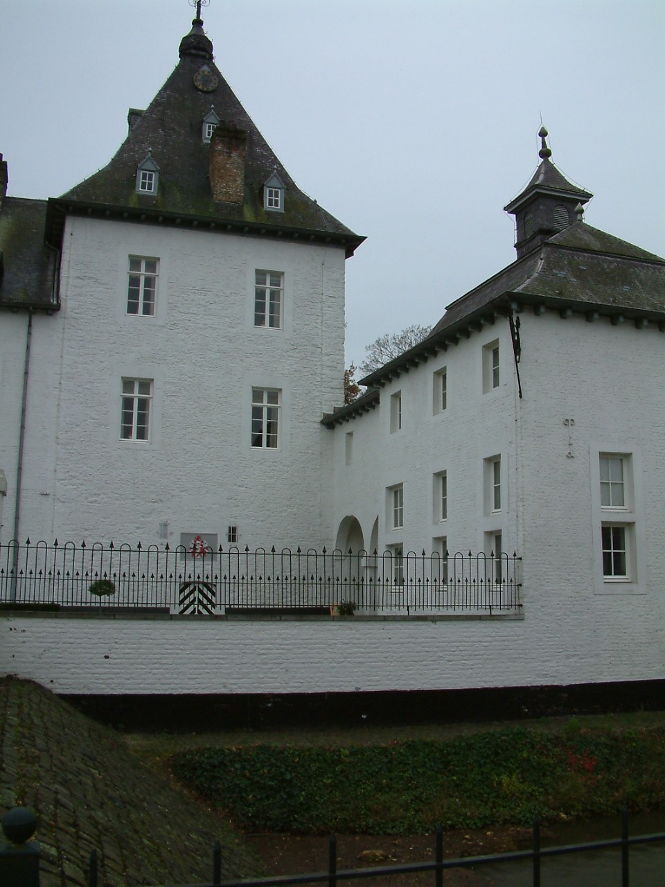 Rijckholt Castle, the tower and the right wing